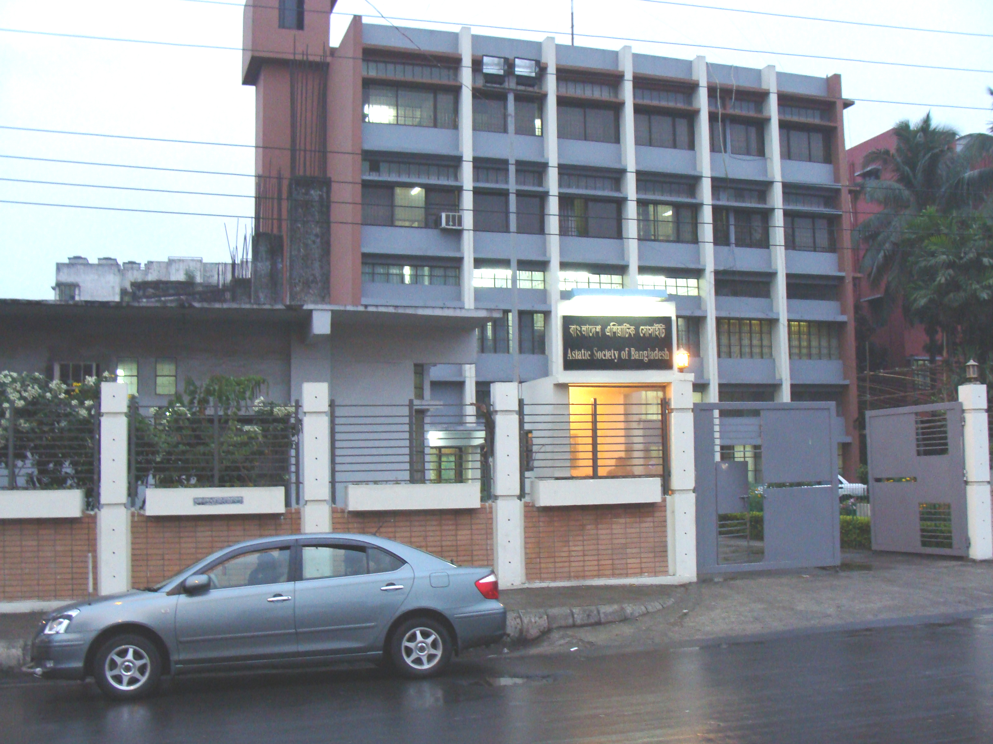 Office building of Asiatic Society of Bangladesh at Dhaka in Bangladesh.